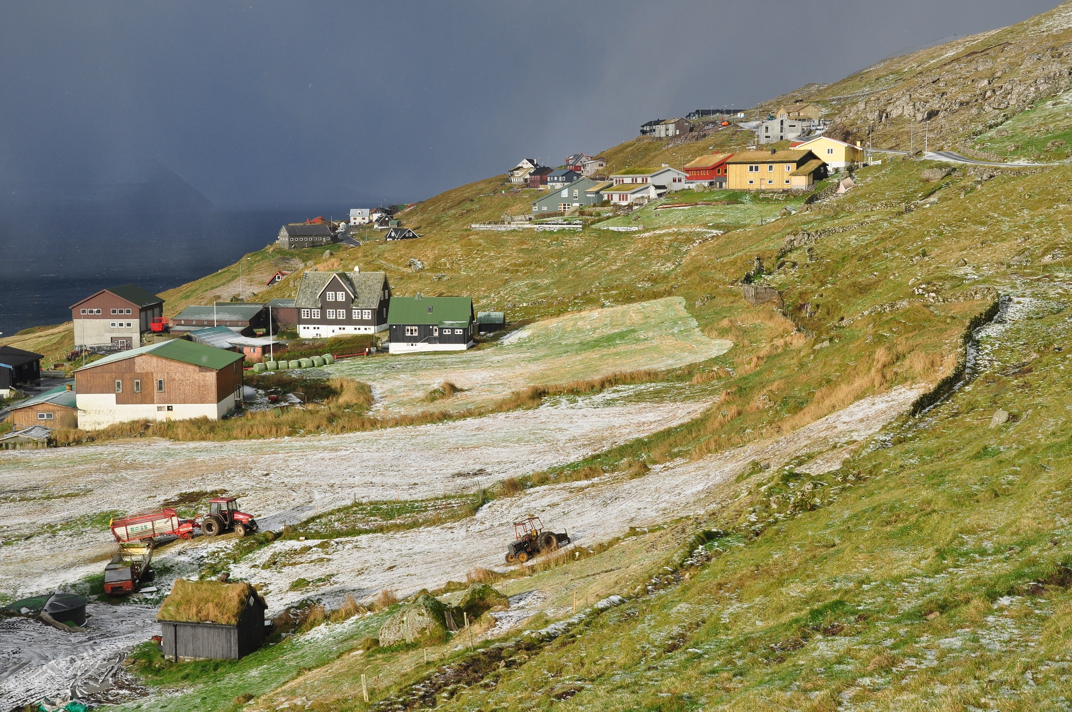 Velbastaður, a village on Streymoy (Faroe Islands).